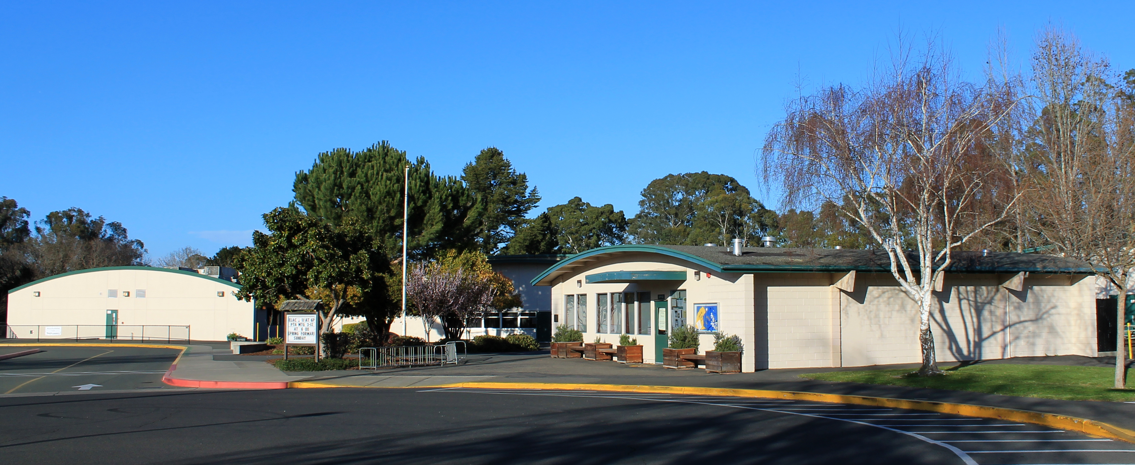 photograph of trees and buildings at Thomas Page Academy (aka Thomas Page Elementary School) at 1075 Madrone Avenue, Cotati, California